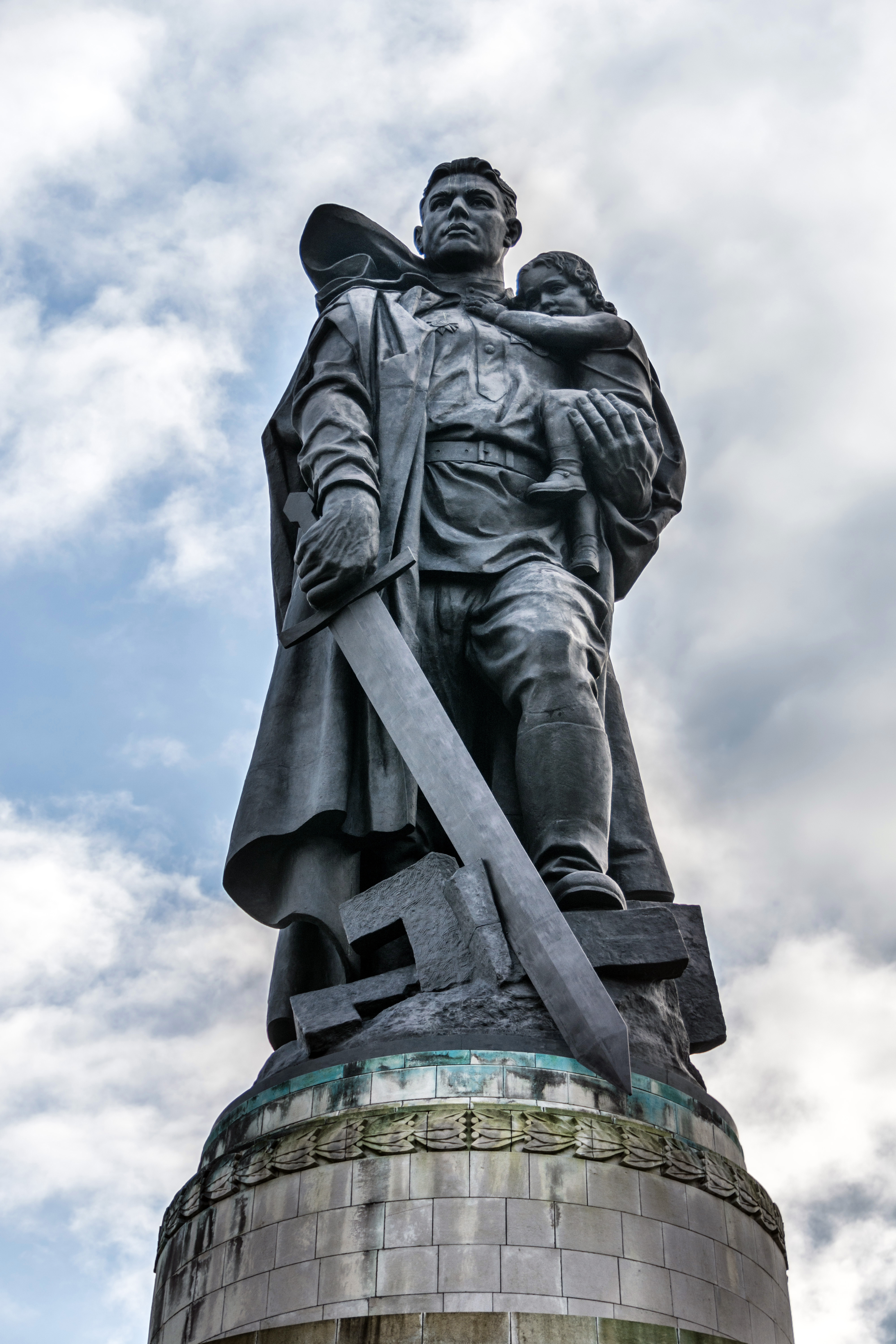 Soviet War Memorial in Treptow Park, Berlin. Front view of the "Liberator" statue.